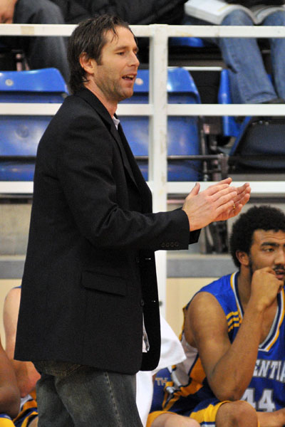 Picture of basketball player and coach, Shawn Swords. Wilson Wong photo.